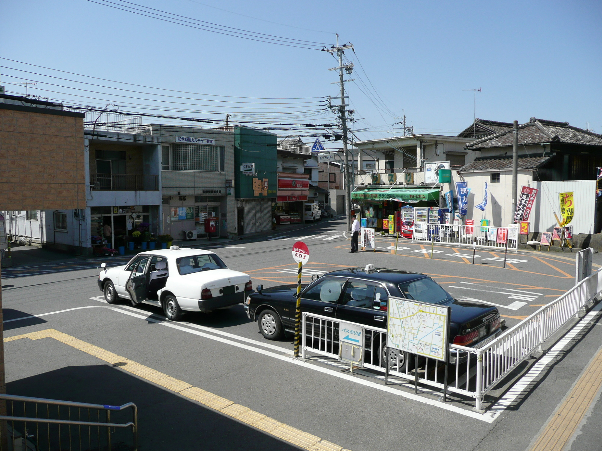 Kii Station plaza, JR Hanwa Line.